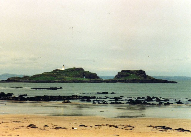 Fidra